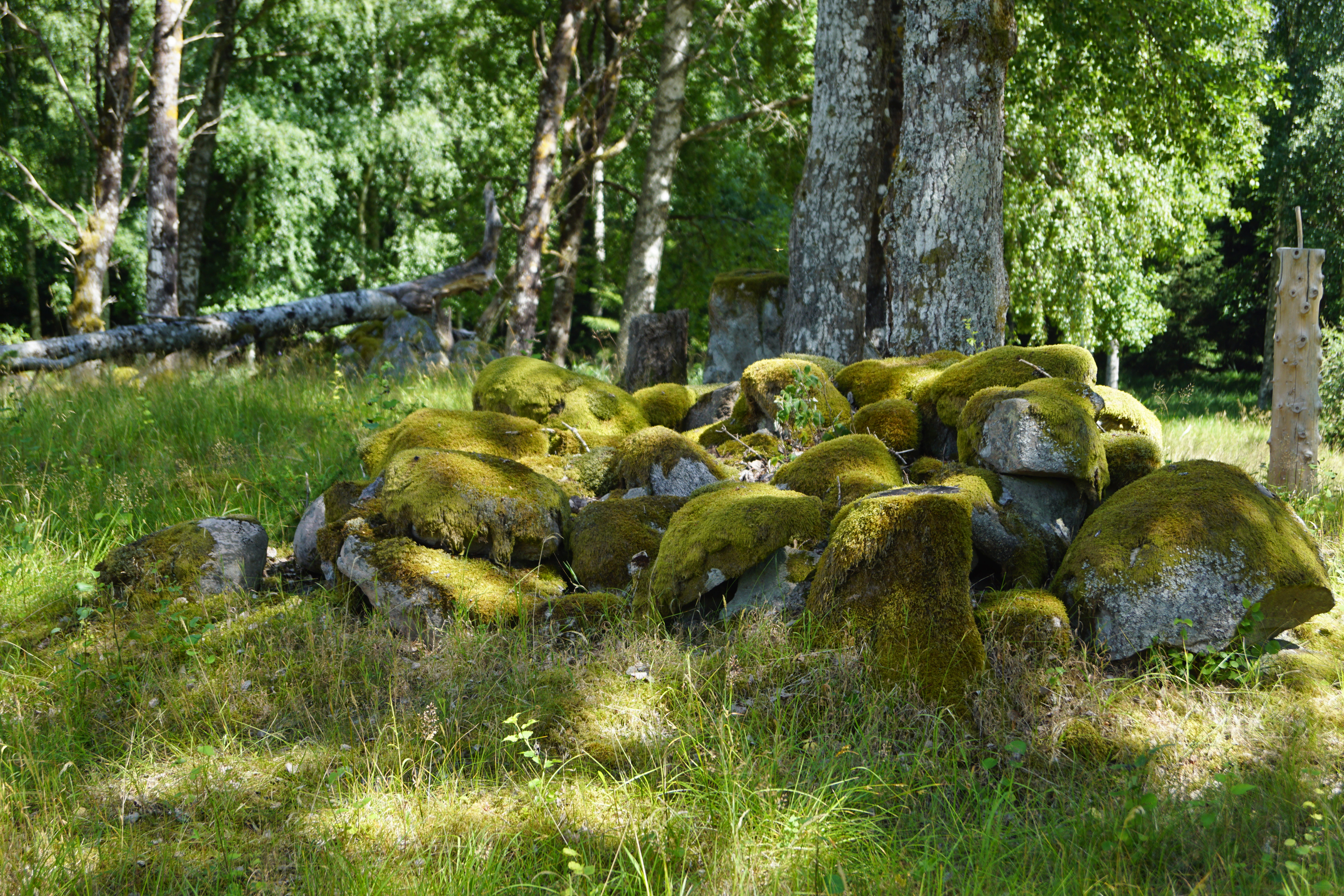 The remainings of the foundation of the barn of the croft Oset, the childhood home of Pehr Osbeck, in Hålanda socken, Ale Municipality, Sweden